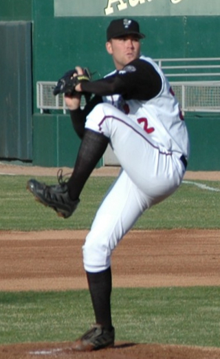 Casey Janssen